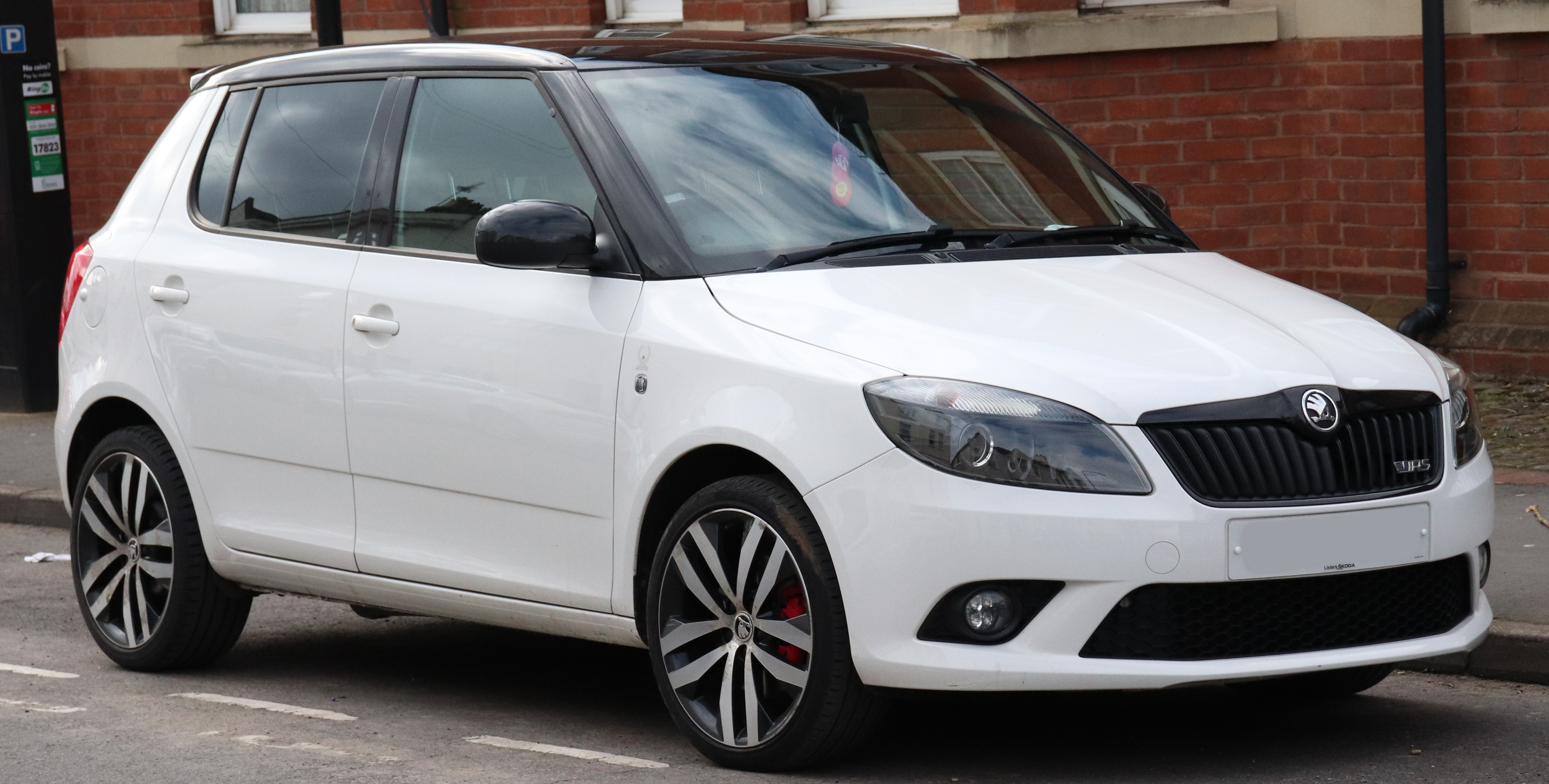 2013 Skoda Fabia VRS S-A 1.4 Front Taken in Leamington Spa